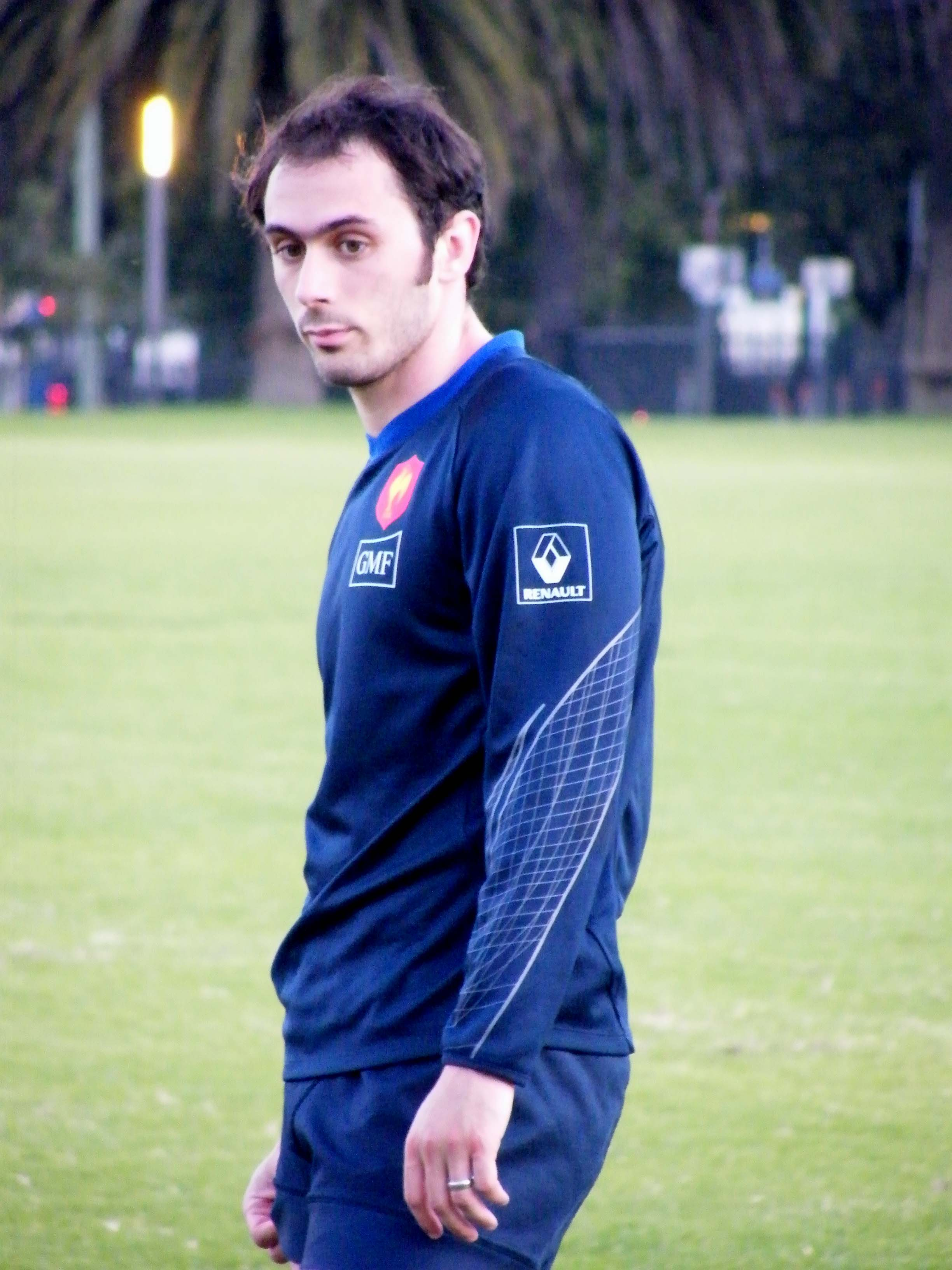 Julien Dupuy - French Rugby Union Training - Moore Park, Sydney 23 June 2009.